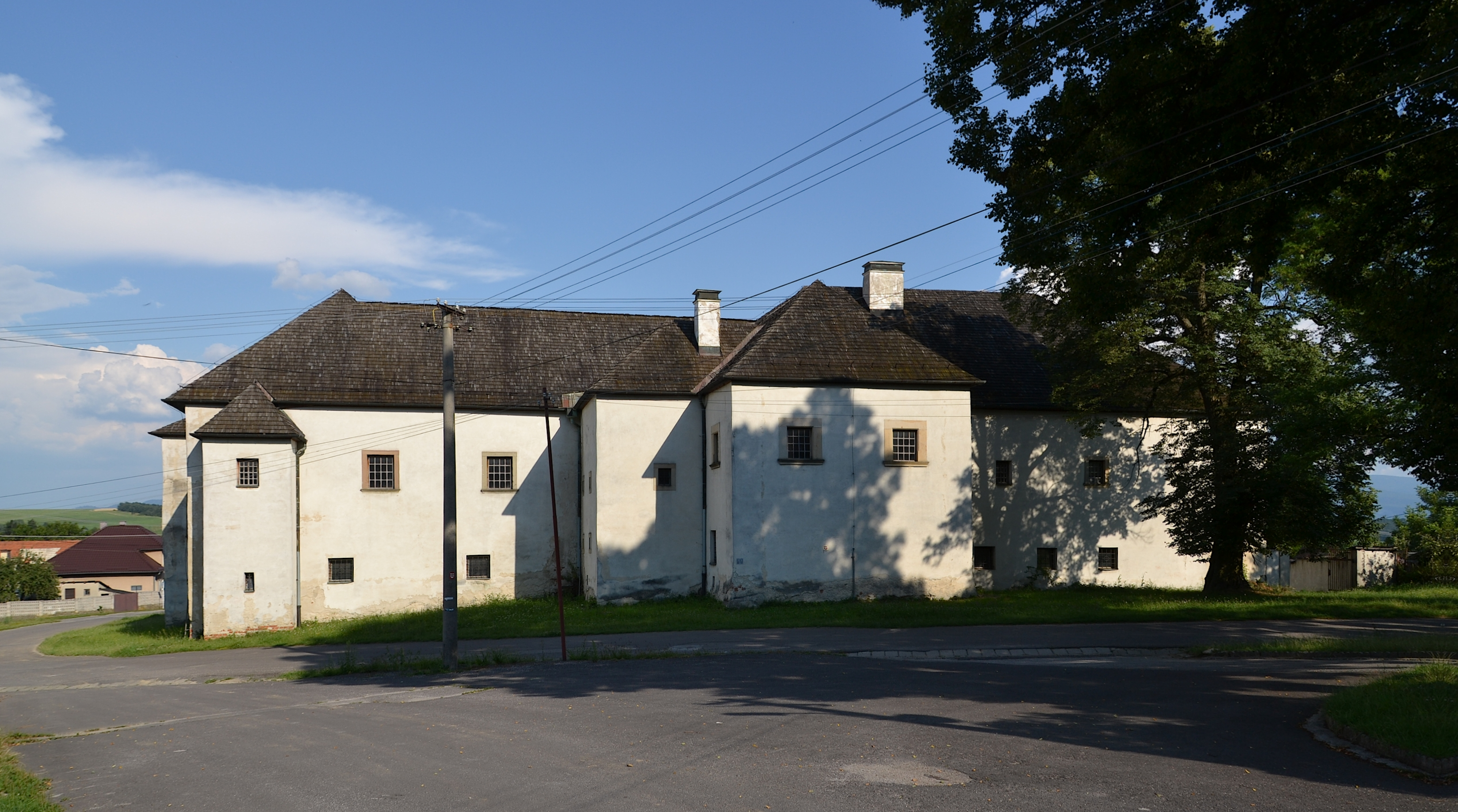 Diviacka Nová Ves (Divékújfalu, Divickneudorf) - manor